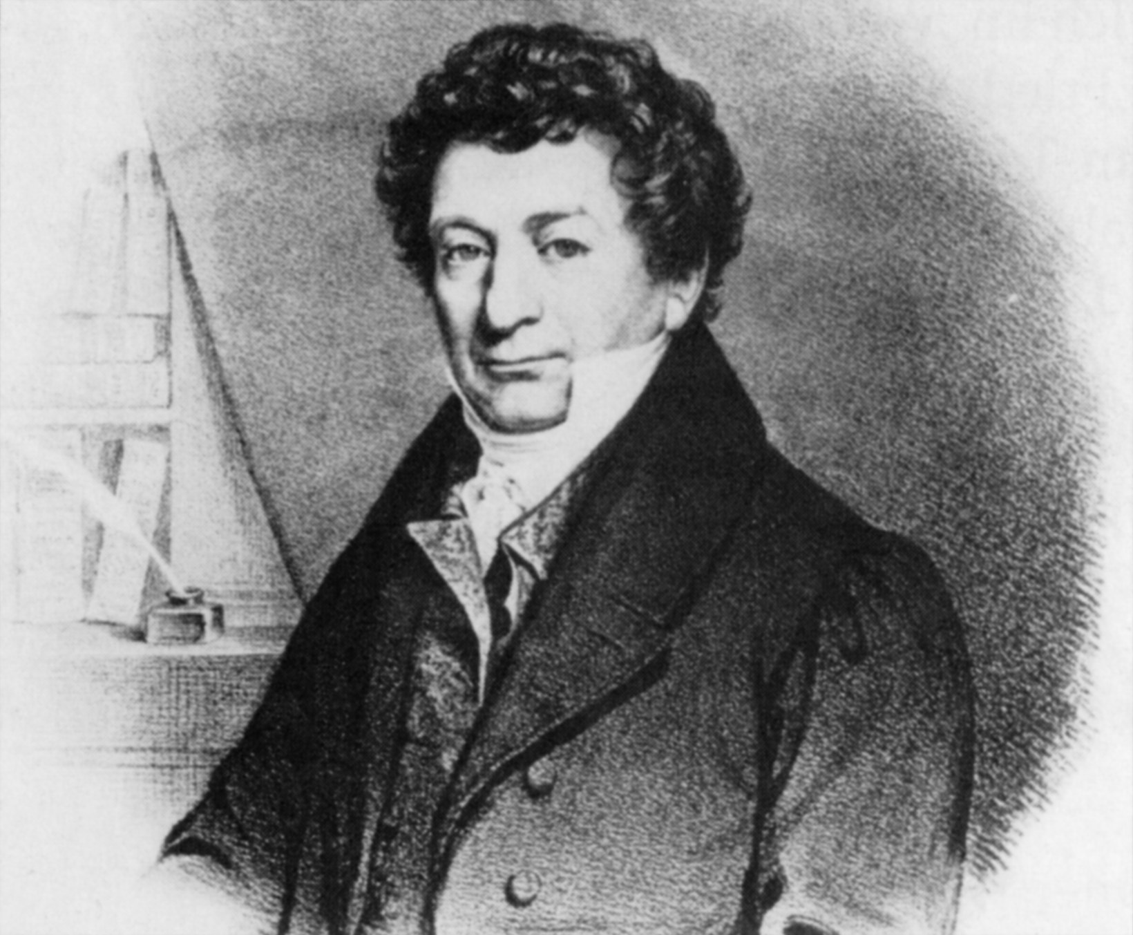 Lithography of the German pharmacist Friedrich Wilhelm Adam Sertürner. He discovered morphine in 1804.